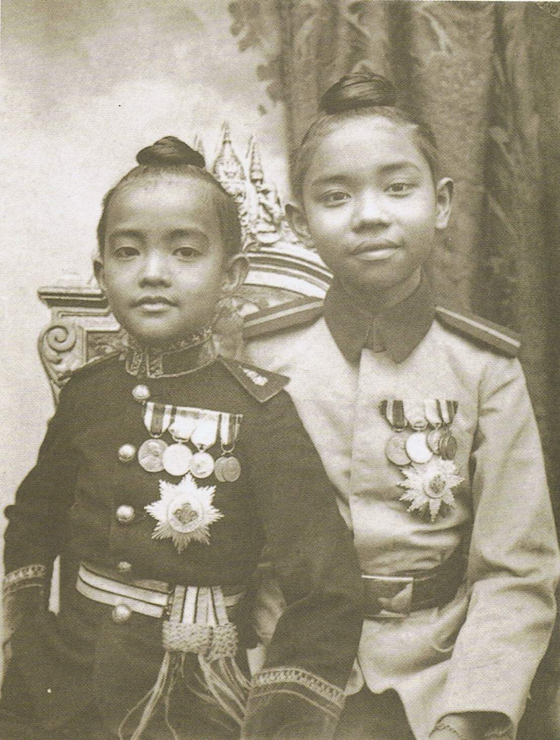 HRH Prince Urubongs Rajsombhoj (left) with HRH Prince Prajadhipok Sakdidej, the Prince of Sukhothai (later King Rama VII) in their childhood.